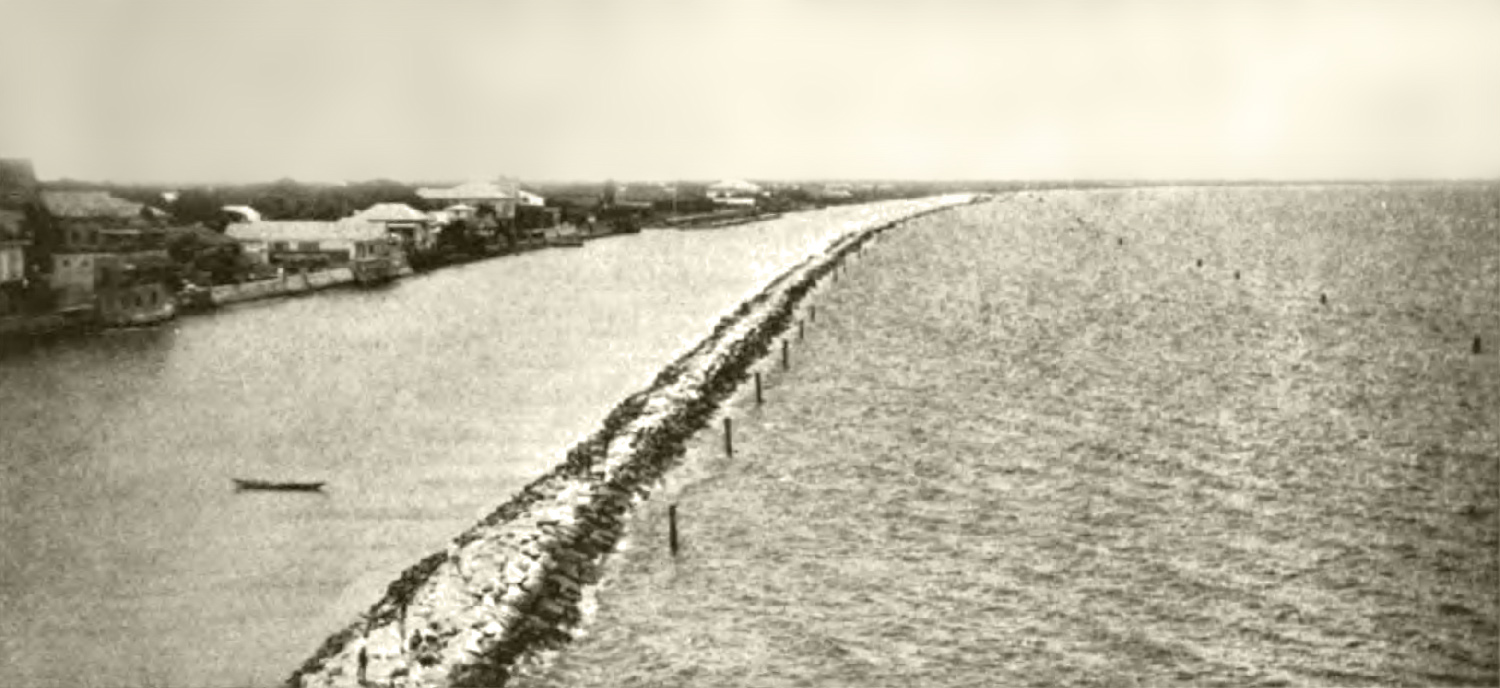 The riprap wall of the projected Cavite Boulevard (now known as Roxas Boulevard) in 1912.